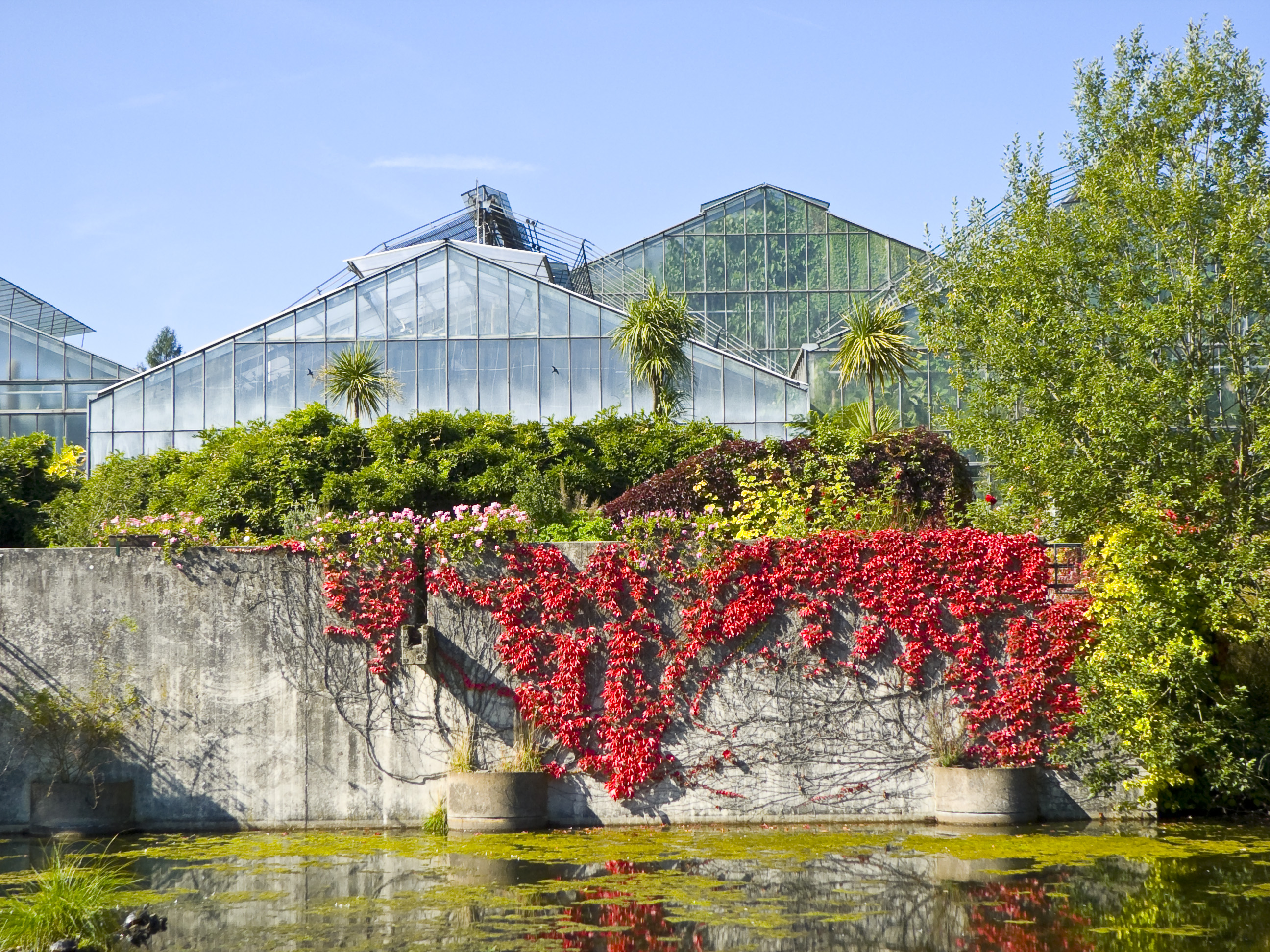 New Botanical Garden Marburg on the Lahnhills, Greenhouses and Pond, Hesse, Germany